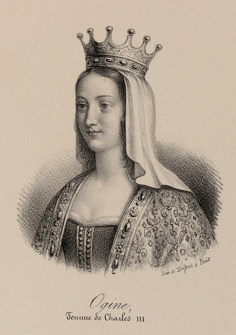 Eadgifu of Wessex (902-955), wife of Charles III of France